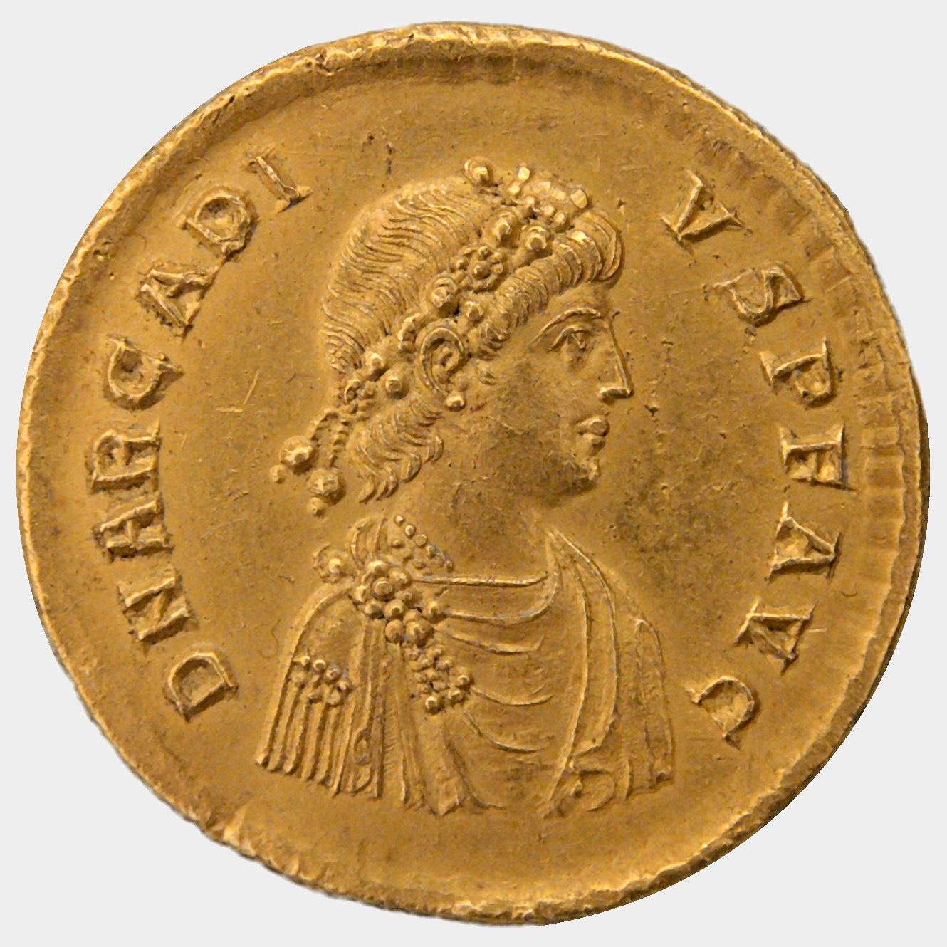 Bust of Arcadius right with beaded diadem, cuirass, and paludamentum. Gold solidus, mint of Constantinople.